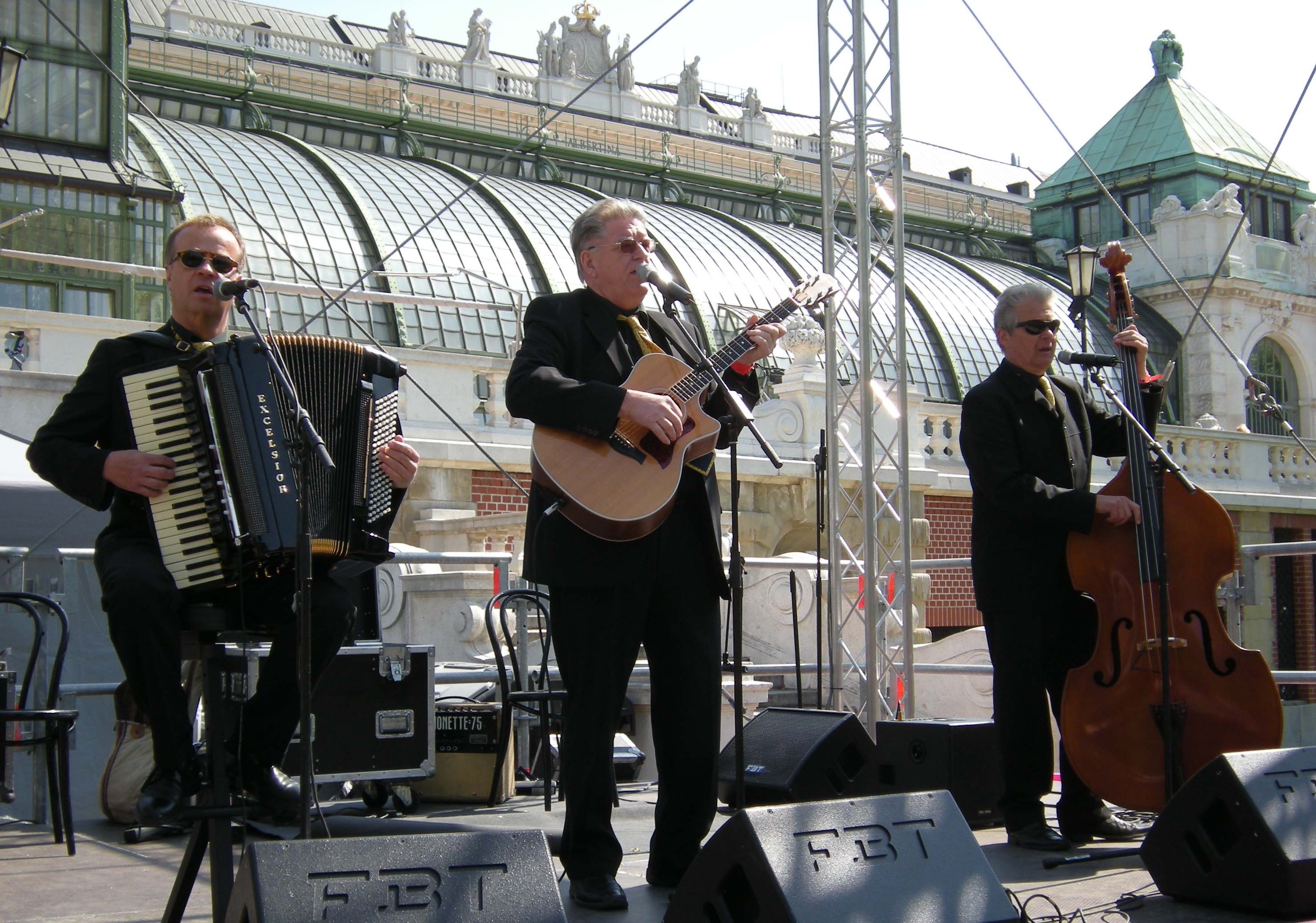 'Trio Wien' performance at Vienna's annual Stadtfest, 2009. From left: Alfred Gradinger - accordion, vocal. Hans Radon - guitar, vocal. Franz Horacek - double bass, vocal. Note: Camera time is set to UTC, which is local time -2.